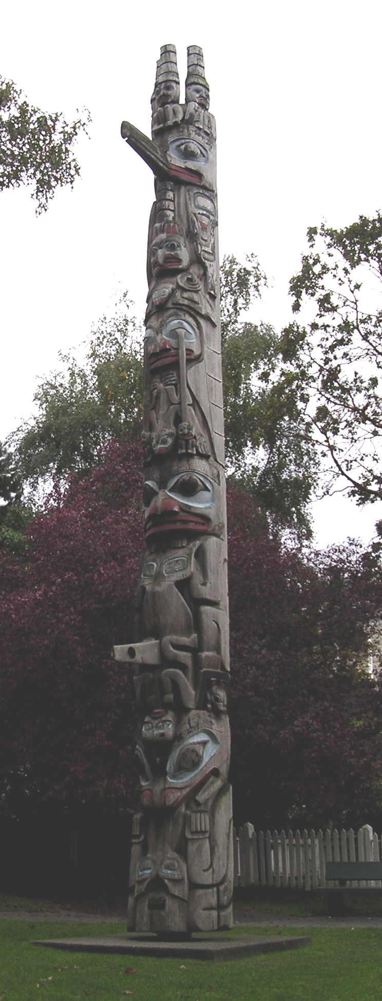 A totem pole on the grounds of the Royal BC Museum in Victoria, British Columbia.